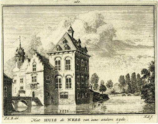 Castle Te Nesse near Linschoten, drypoint by H. Spilman after a drawing by J. de Beyer